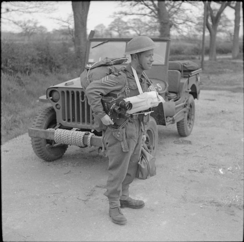 The British Army in the United Kingdom 1939-45 Sergeant W A Greenhalgh, Army Film and Photographic Unit, with his jeep during Exercise 'Fabius', 6 May 1944.